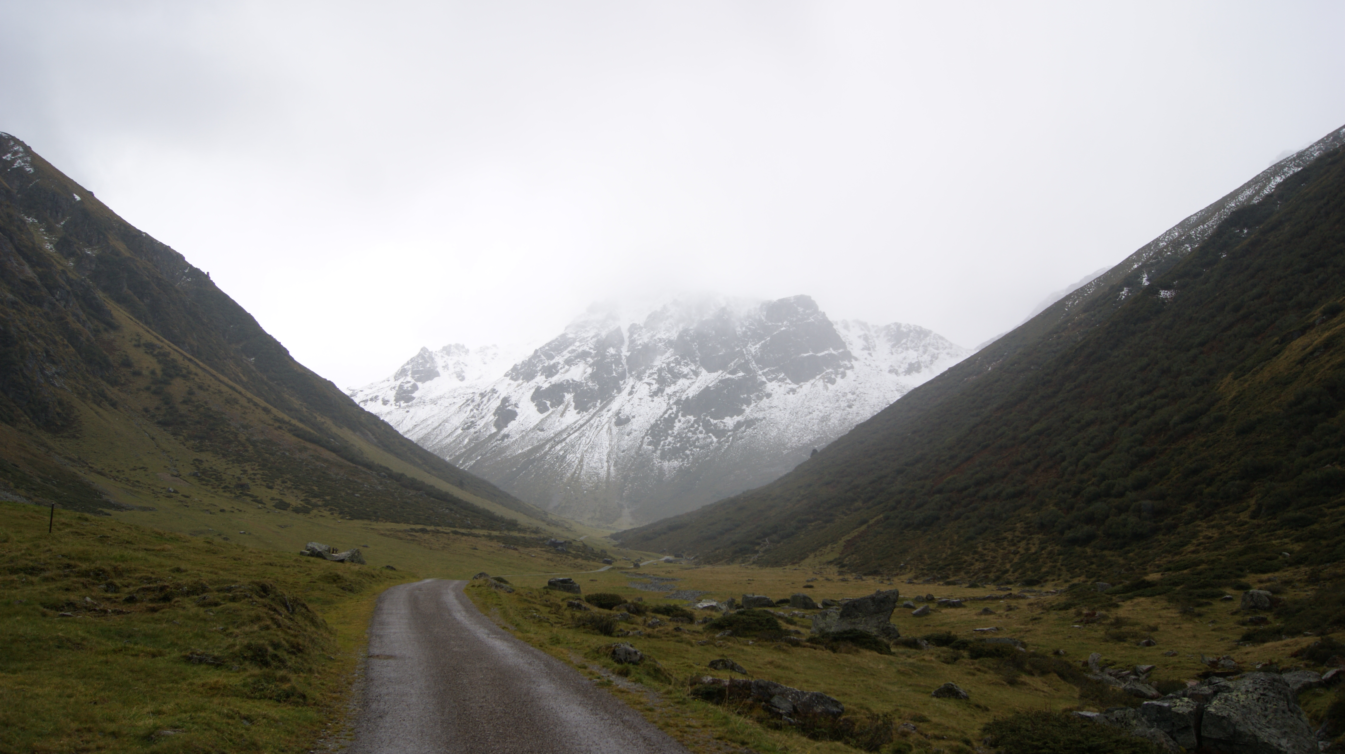 View through the Valzifenztal (valley) in Gargellen (Vorarlberg, Austria) to the Schlappiner Spitze (peak). Dieses Bild wurde anlässlich des österreichischen Tags des Denkmals 2017 in Vorarlberg eingereicht.